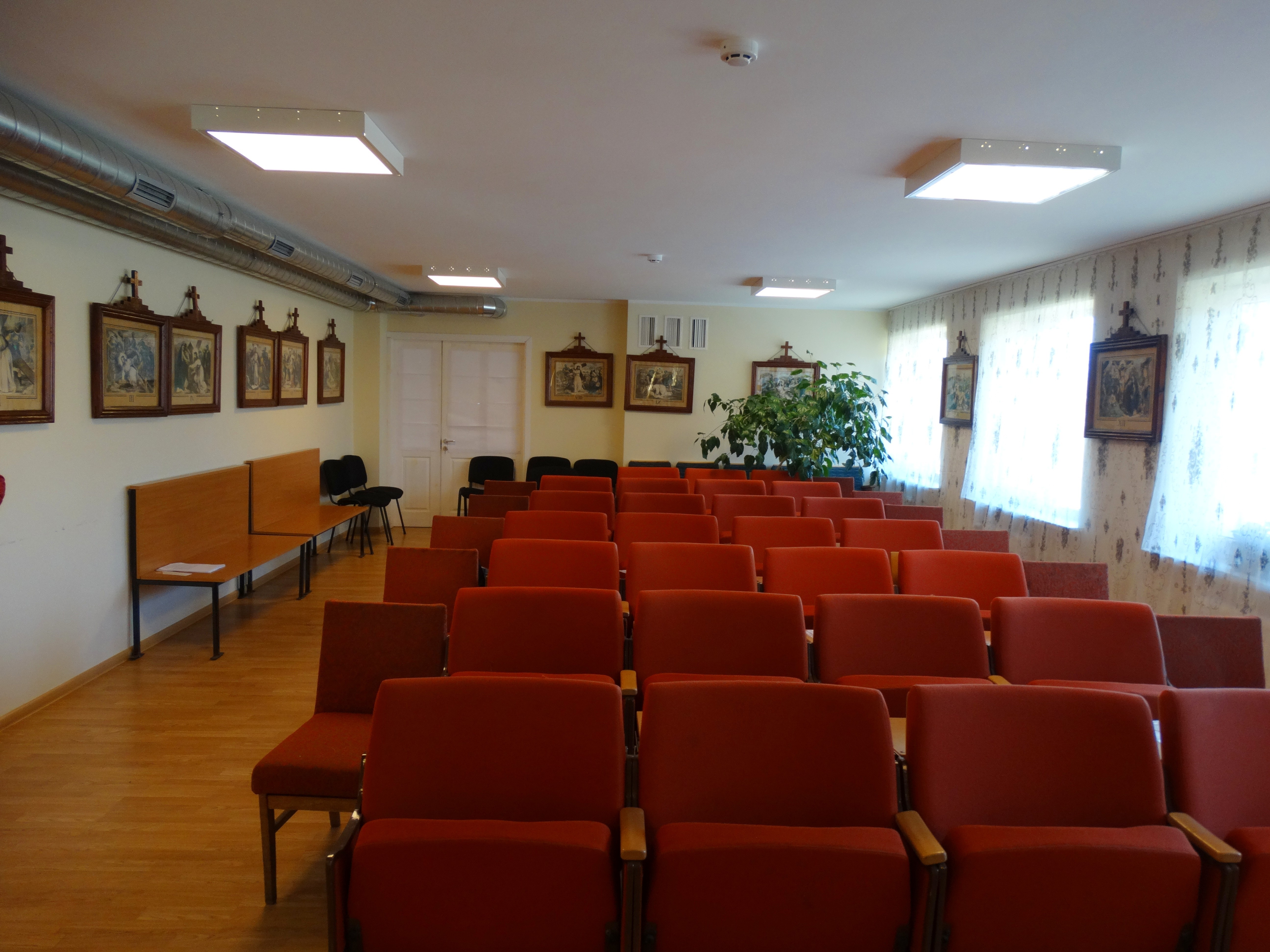 Chapel, Staneliai, Plungė District, Lithuania